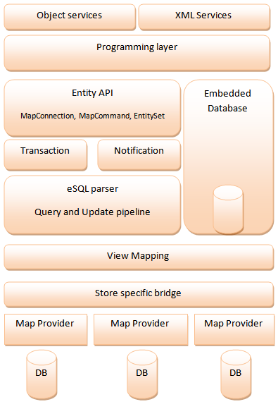 Entity Framework stack